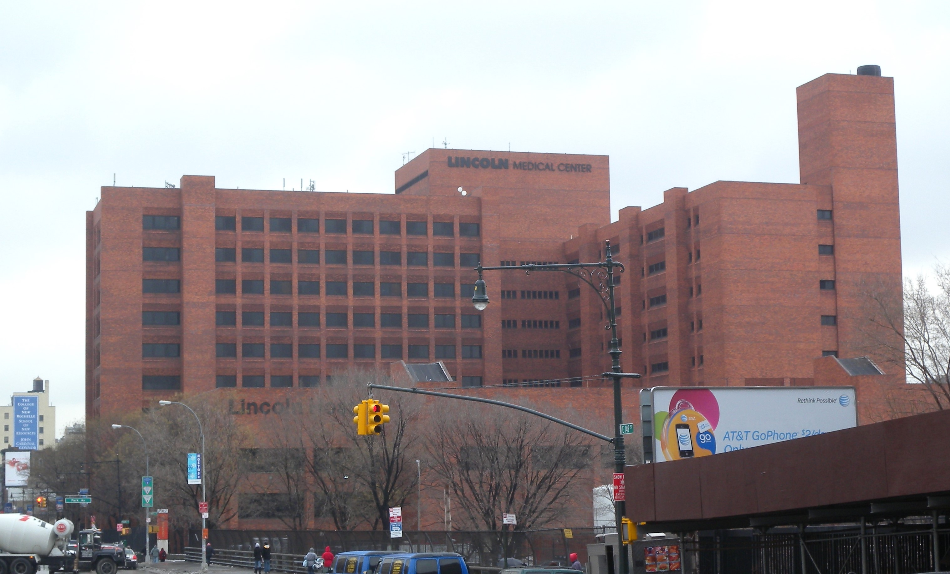 Looking east from Grand Concourse across Park Avenue at Lincoln Hospital on a rainy day.